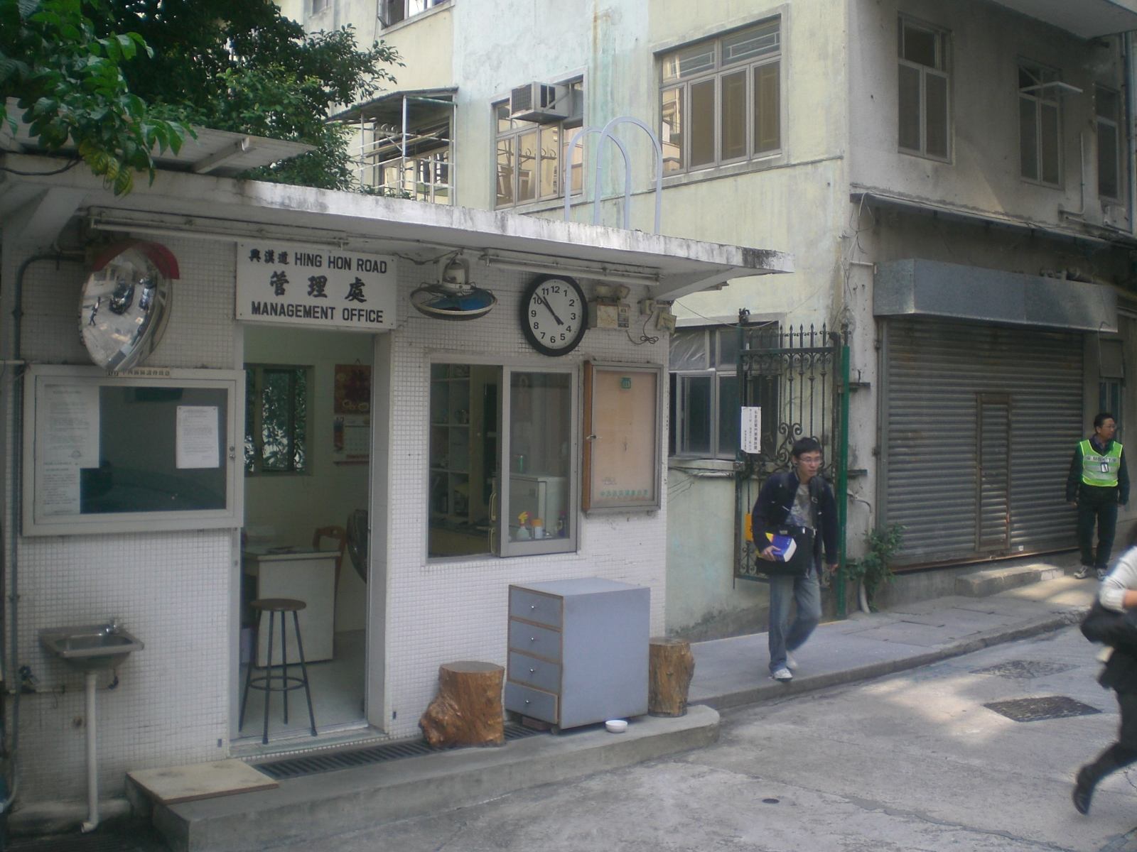 西營盤興漢道